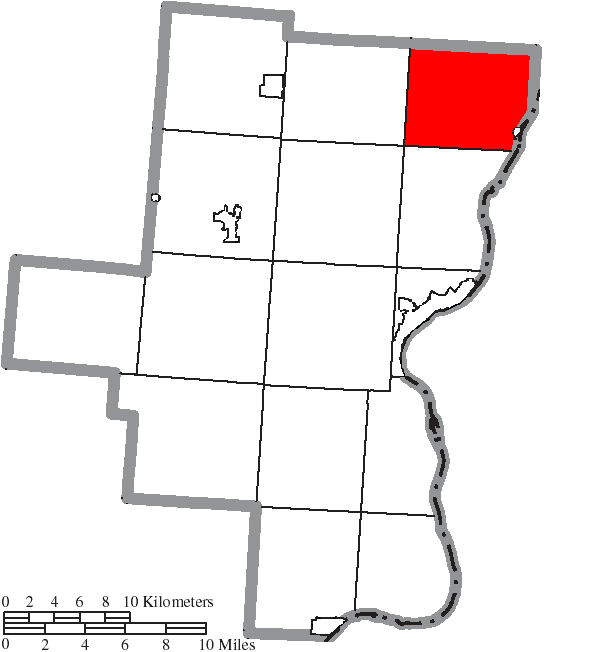 Map of the municipal and township boundaries of Gallia County, Ohio, United States, as of the 2000 census, with the location of Cheshire Township highlighted. Township borders are shown only in unincorporated areas in order to differentiate incorporated and unincorporated areas more clearly.